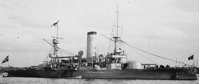 A picture of the Norwegian coastal defence ship Tordenskjold ca 1900.